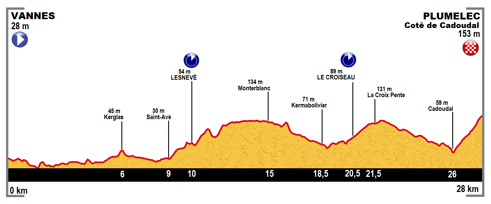 Profile of the 9th stage of the Tour de France 2015